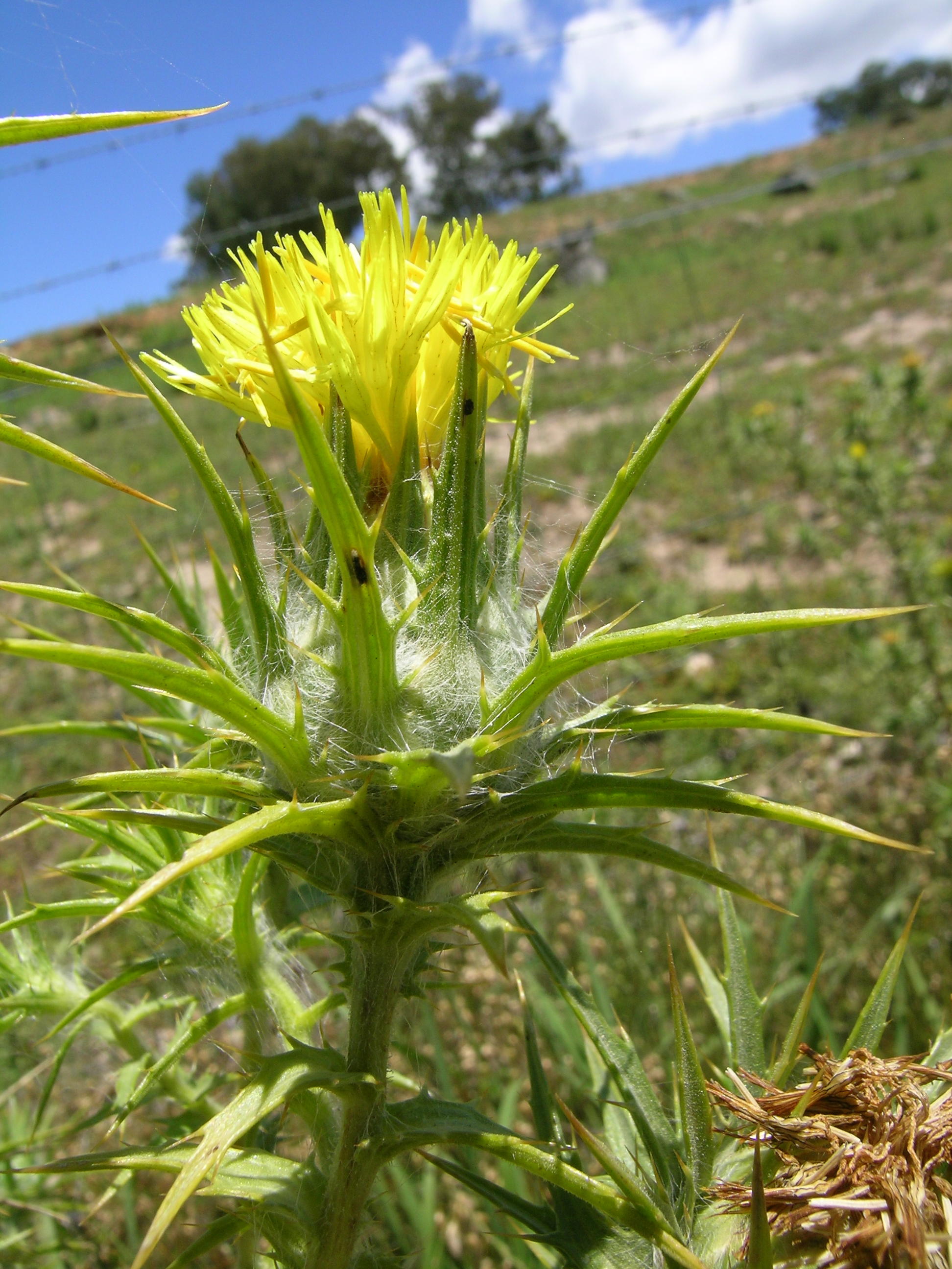 Flowerheads are solitary terminal heads; heads have tubular yellow florets surrounded by stiff, spiny, leaf-like hairy bracts. Germinates mostly in autumn; plant is in rosette form over winter; flower stem elongates in spring; flowers in early summer.